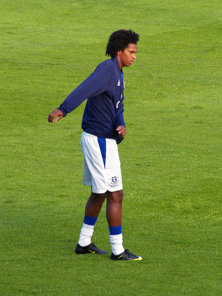 Everton FC forward Jo during the warm up at Gigg Lane, home of Bury Football Club prior to the Bury vs. Everton friendly game. Friday 10th July 2009